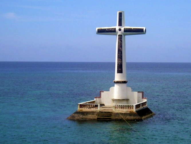 The cross marks the site of a cemetery that was swallowed by the sea during an 1871 volvanic eruption. Olympus Camedia (SAKAHAN Visayas and Mindanao Consultative Workshops, November 2004). Slightly improved with Picasa.